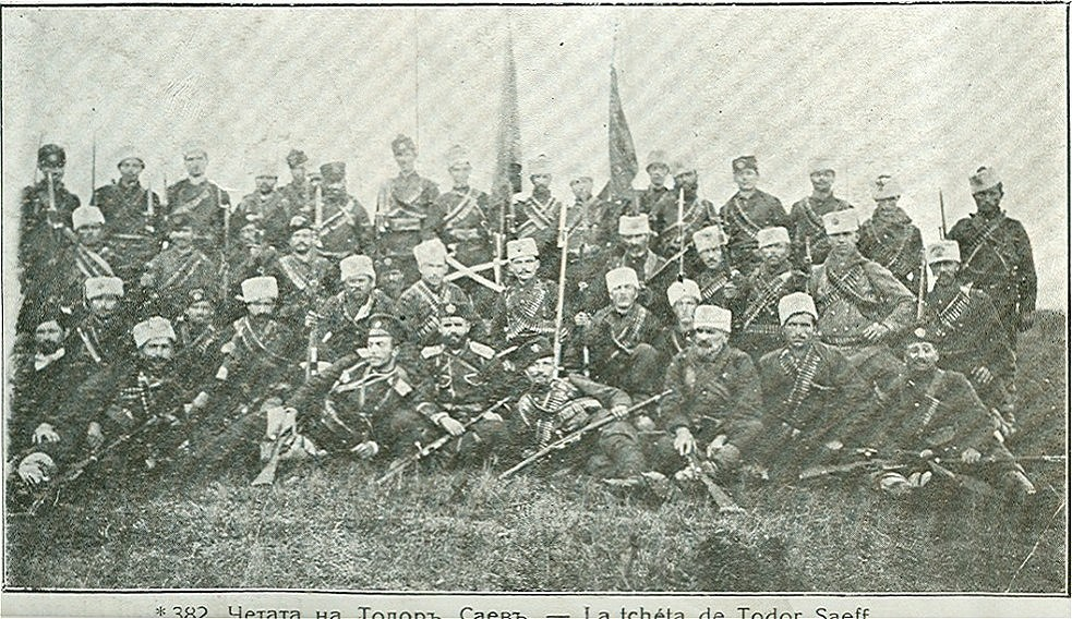 cheta of Todor Saev and Nikola Lefterov